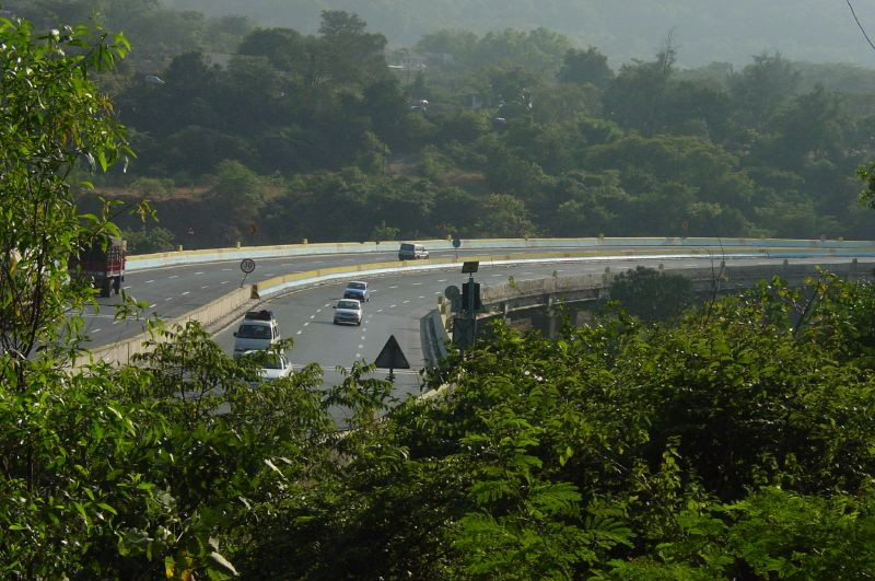 Pune expressway from Khandala hills, Maharashtra India